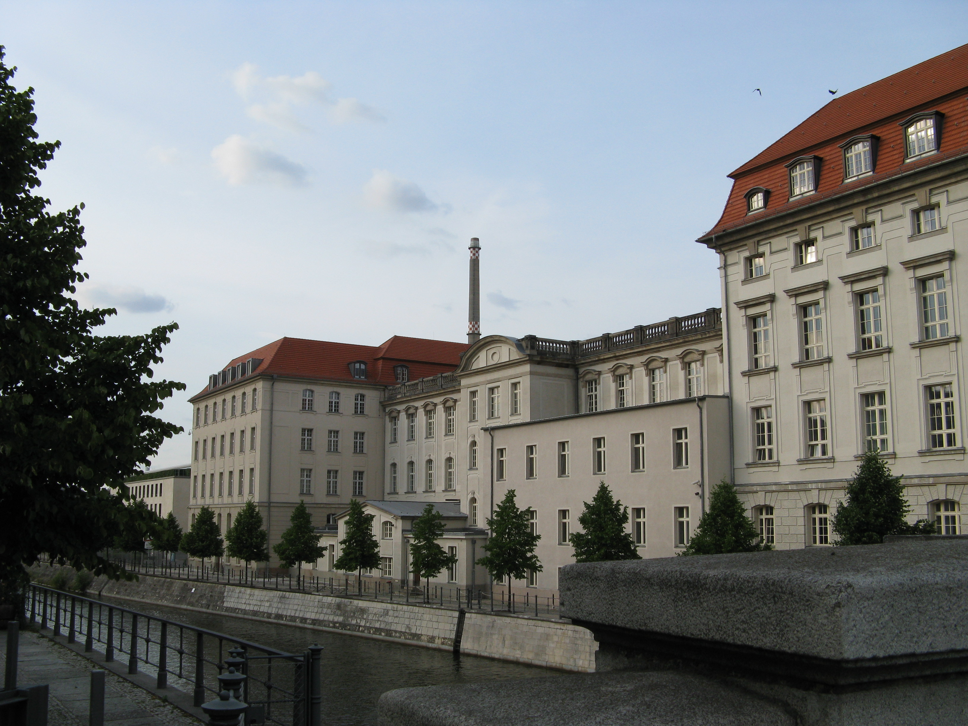 Building of the "Bundesministerium für Wirtschaft und Technologie" in Berlin, Germany. (The tall chimney is some distance beyond these federal buildings, not a part of them.)